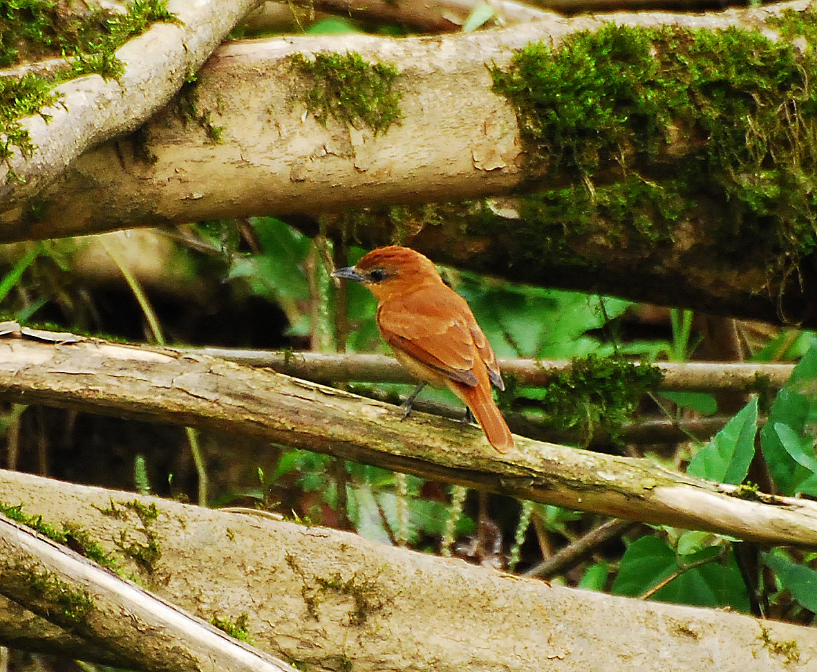 Cinnamon Becard (Pachyramphus cinnamomeus) along the Sarapiqui River south of Puerto Viejo, Costa Rica, 080225. Pachyramphus cinnamomeus.